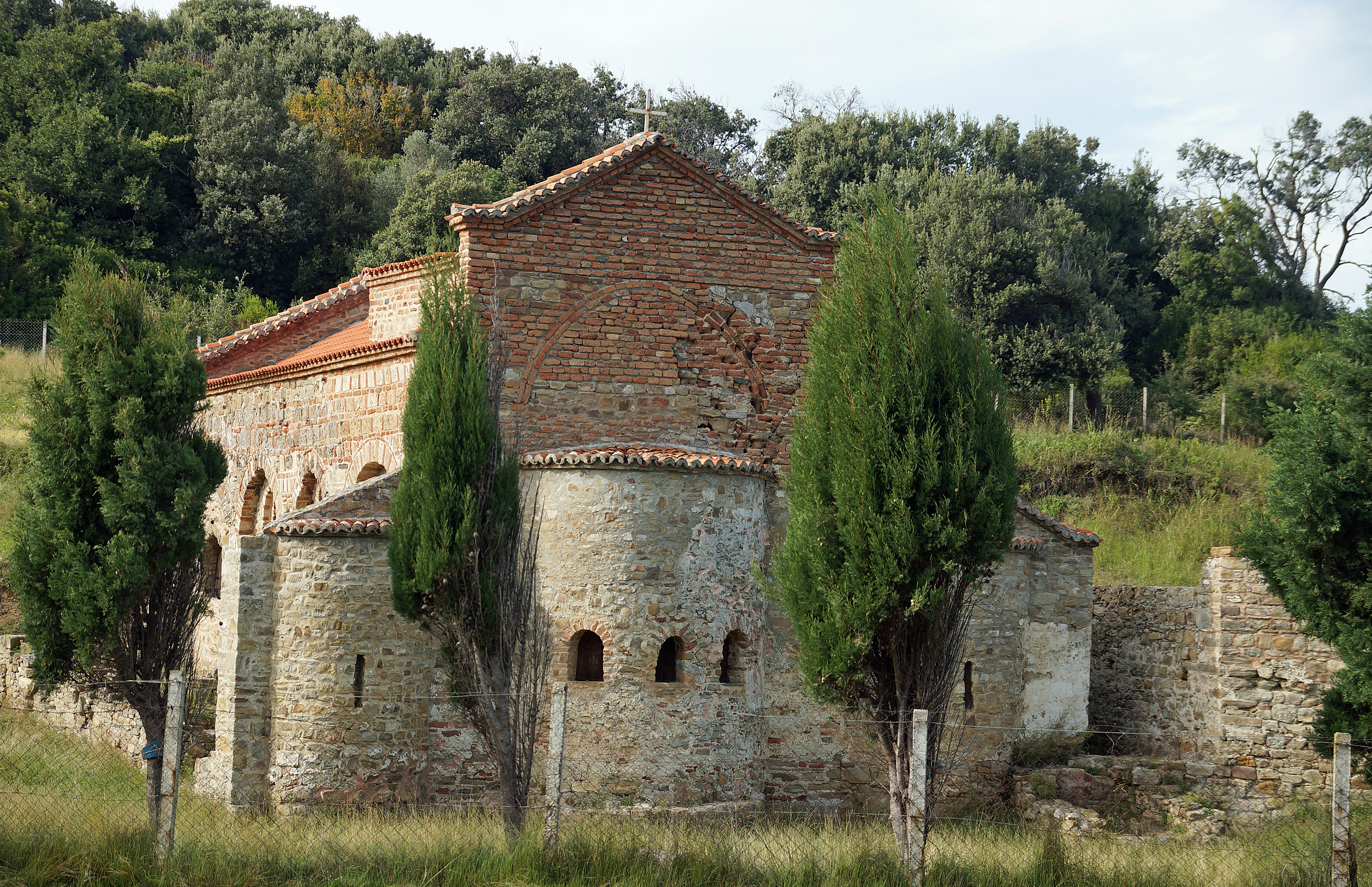 St. Anthony Church, Cape Rodon north of Durrës, Albania